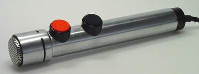 PEIKER Mikrofon TM 110